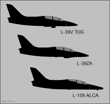 Side-view silhouettes of Aero L-39 and L-159 variants